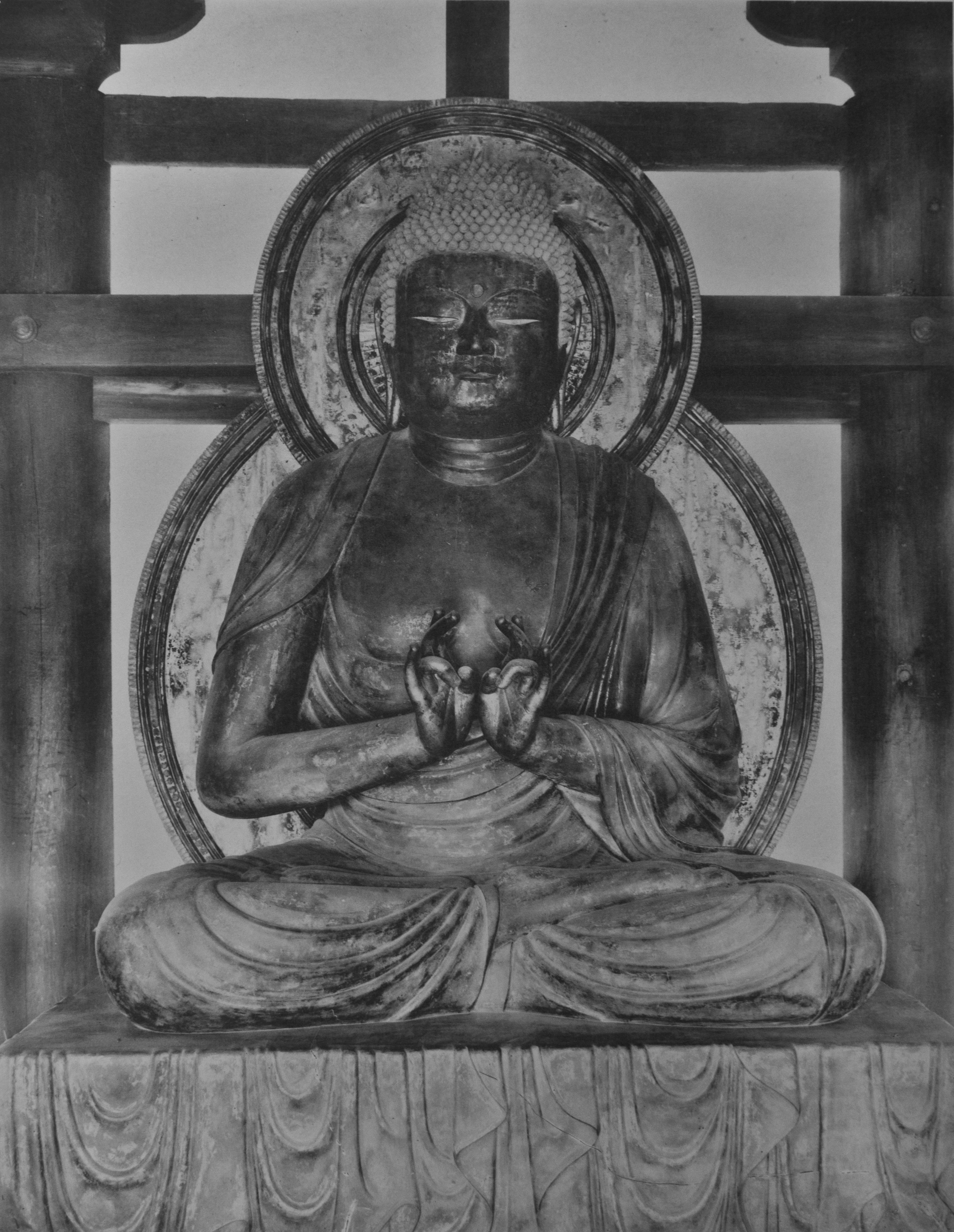 Kōdō, Kōryū-ji, Kyoto, Japan